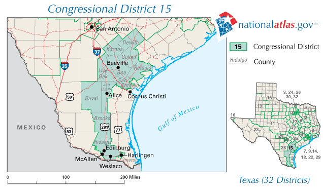 Texas's 15th congressional district